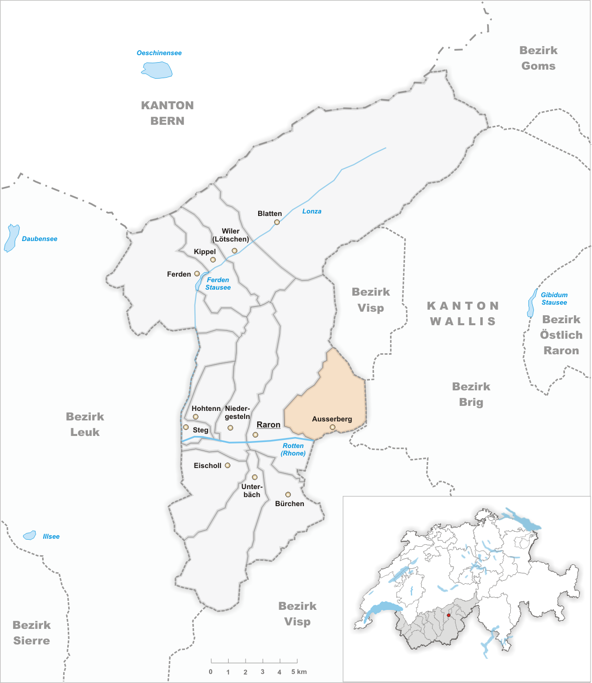 Municipality Ausserberg